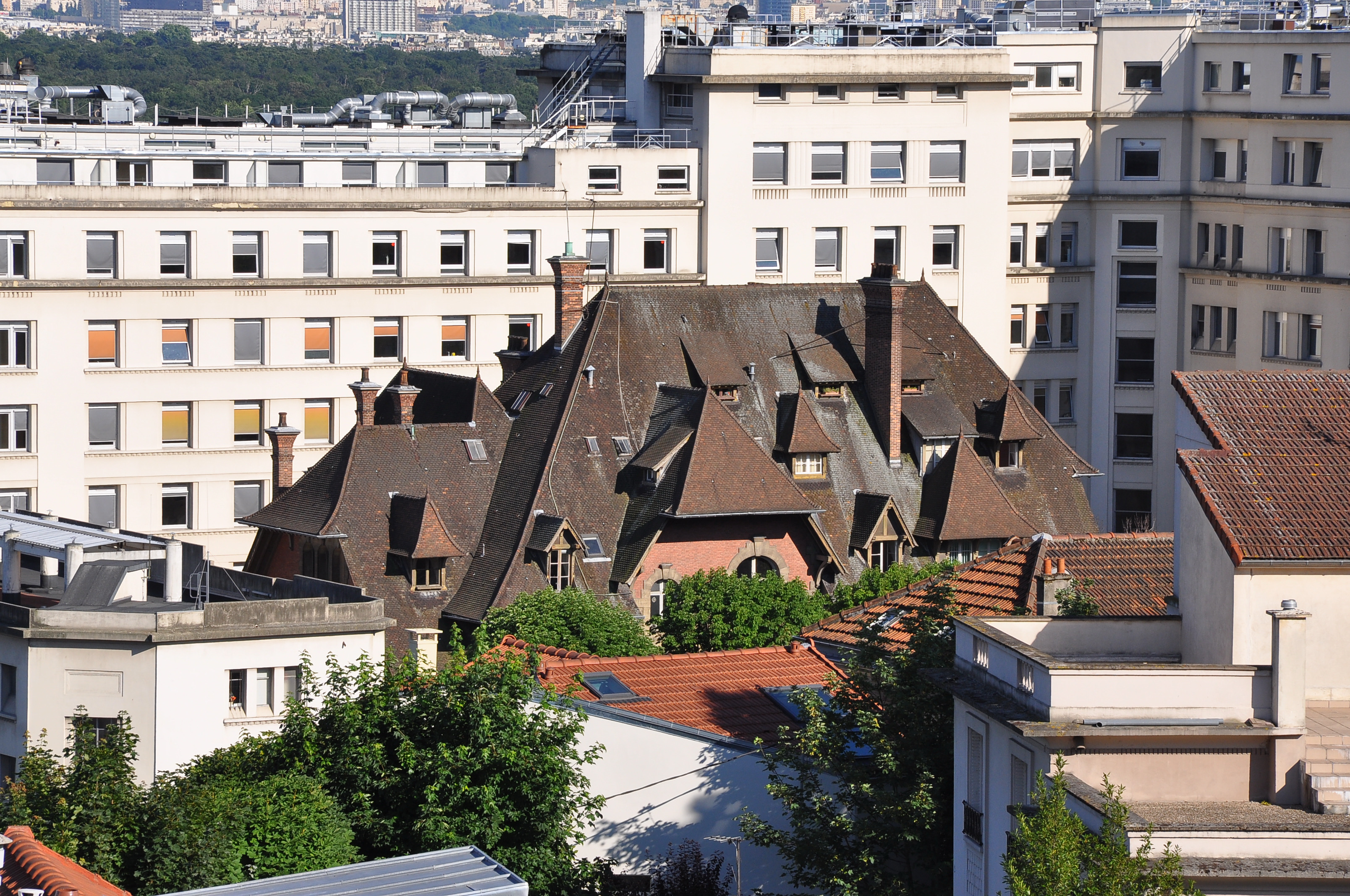 Foch hospital in Suresnes, Hauts-de-Seine department in France.